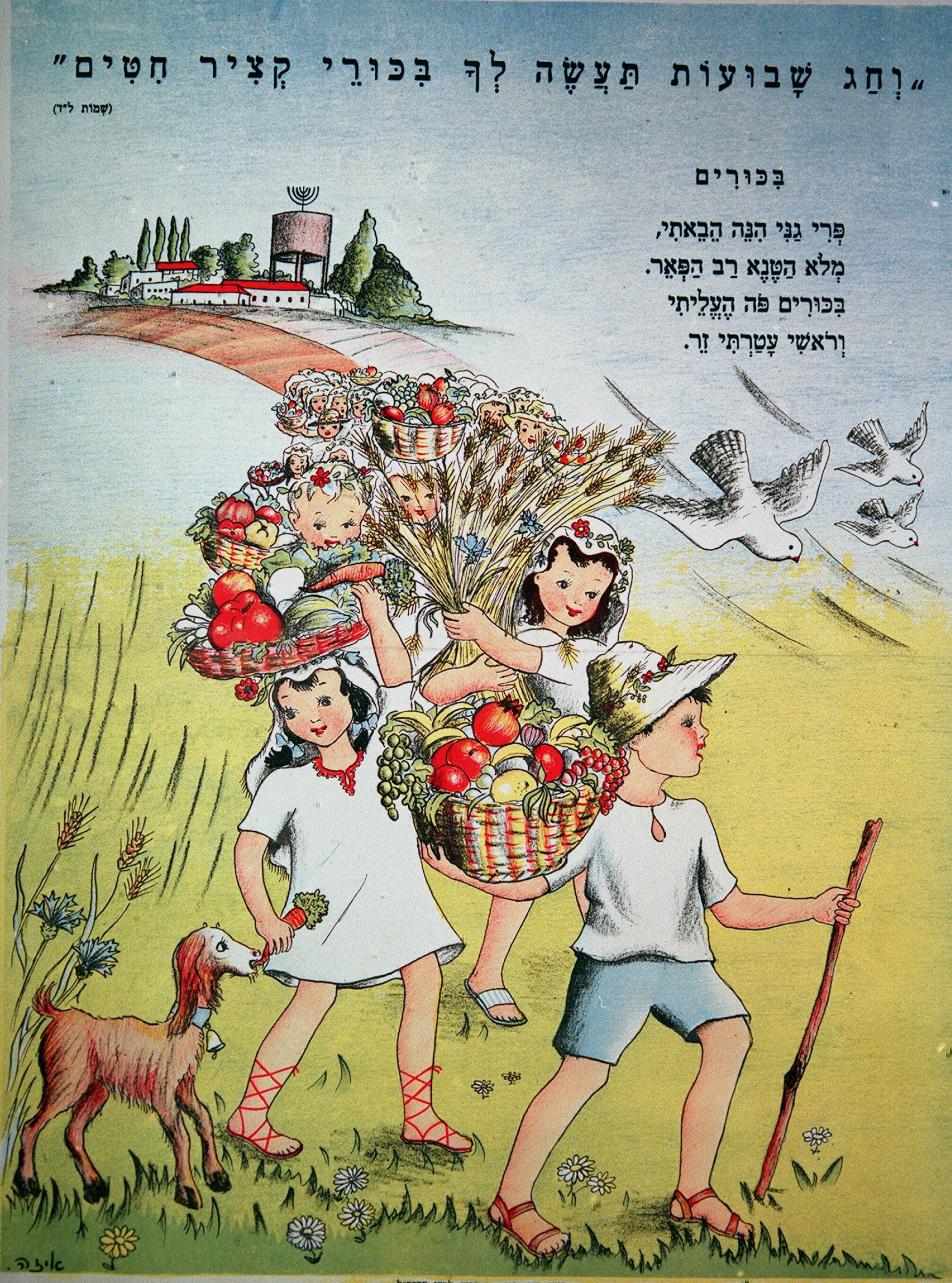 A poster from the late 1940's depicting the Shavuot (Feast of Pentecost) Holiday. עלון מסוף שנות ה-40 לכבוד חג השבועות 01/01/1940